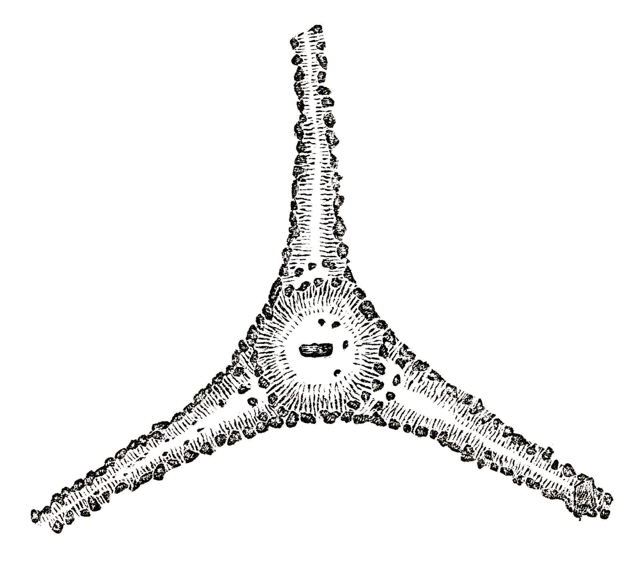 Cleaned up plan of a so called "treudd" in Lyngsta (RAÄ-nr Sorunda 160:1), Sorunda Parish, Nynäshamn Municipality, Sotholm Hundred, Stockholm County, Province of Södermanland, Sweden. The "treudd" is a starformed, three-armed flat cairn with concave sides. The original picture is picture 408 at page 351 in the book Sveriges hednatid, samt medeltid (1877) by Oskar Montelius.